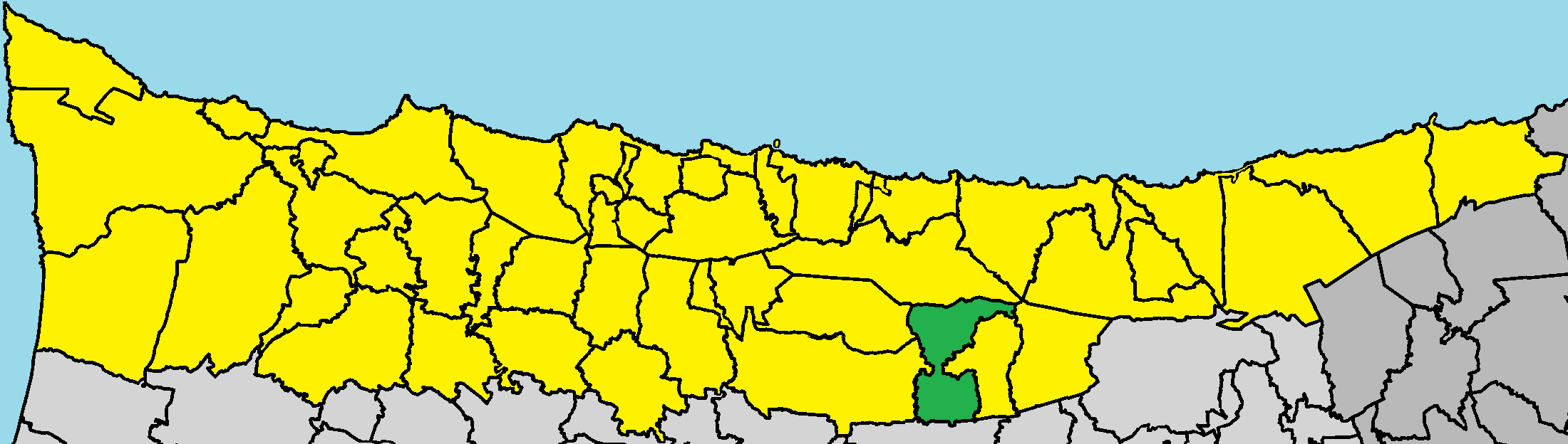 Sichari in Kyrenia District (de jure).